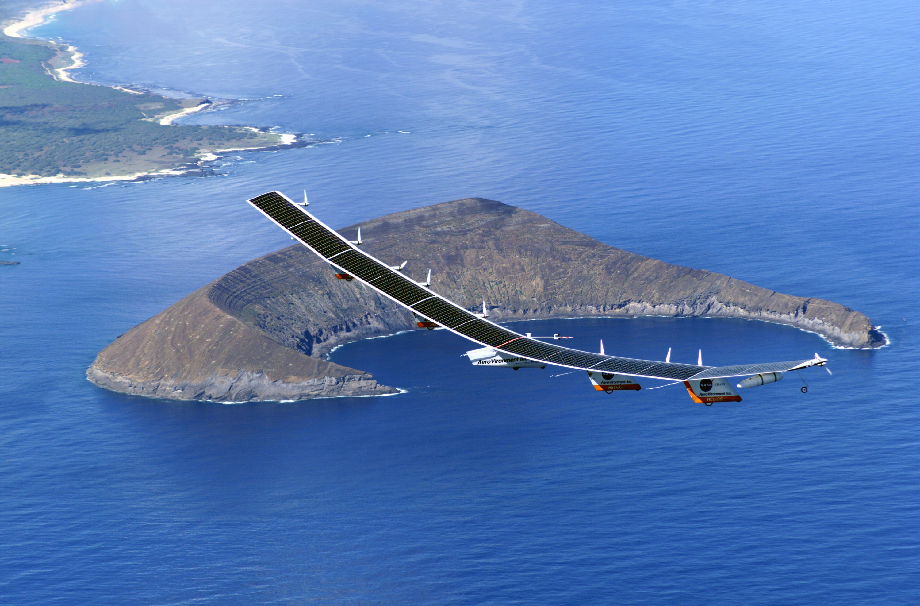 Helios unmanned aircraft seen in flight.